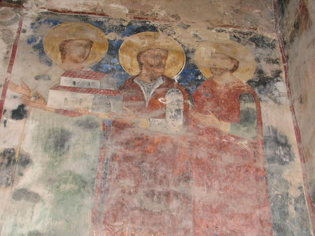 Leon, King of Kakheti, and his wife Tinatin. A fresco from Nekresi, Georgia